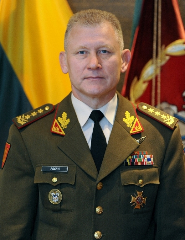 Chief of Defence of the Republic of Lithuania Liautenant General Arvydas PociusLietuvių: Lietuvos kariuomenės vadas Generolas leitenantas Arvydas Pocius